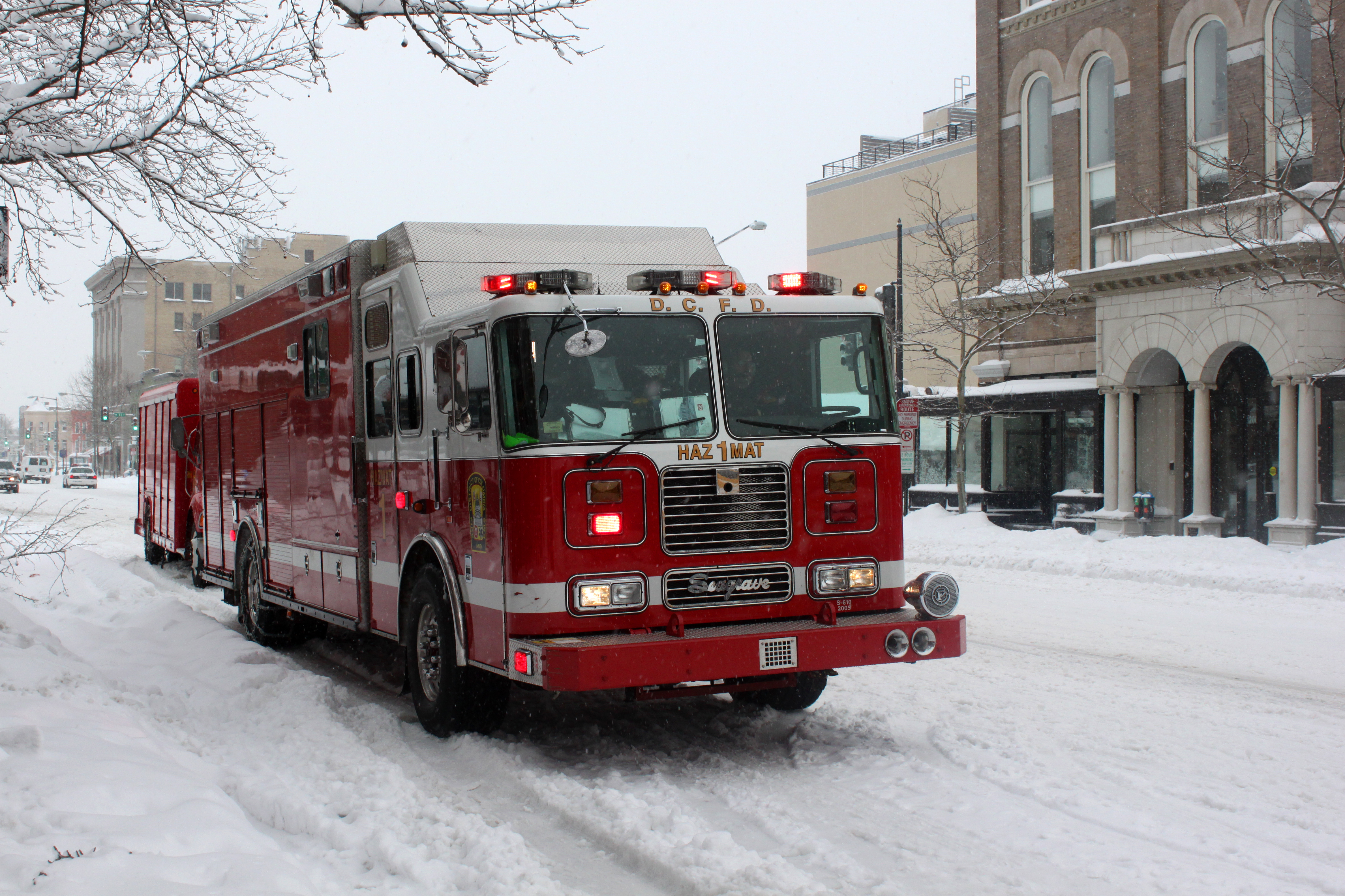 Hazmat 1, a firefighting vehicle belonging to the District of Columbia Fire and Emergency Medical Services Department (DCFEMS, also known as DCFD) in Washington, D.C., in the United States.